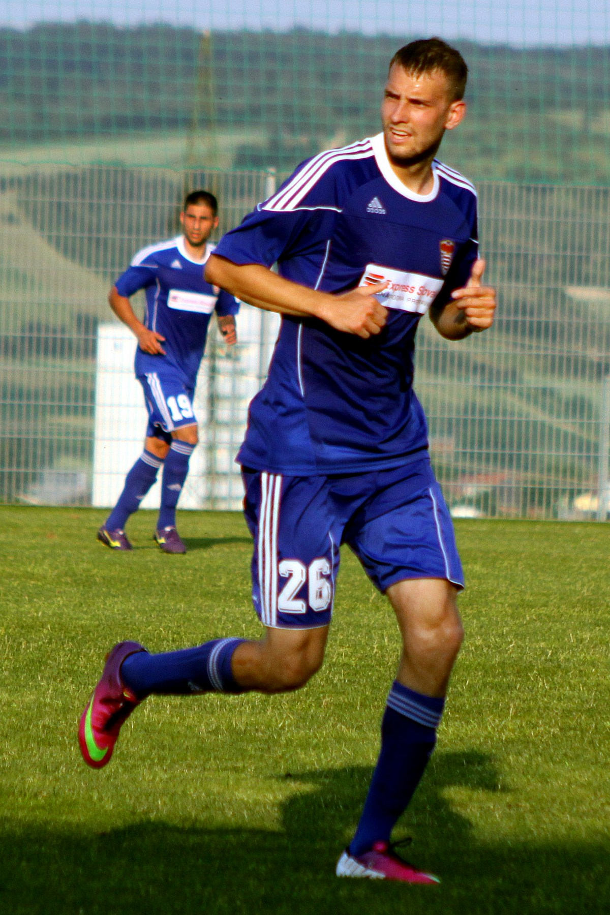 Friendly match SV Mattersburg vs FK Dukla Banská Bystrica (2:2) at 2013-06-21 in Mattersburg. – The photo shows Michal Peňaška (FK Dukla Banská Bystrica).